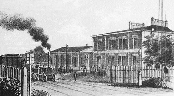 Tornesch (Schleswig-Holstein, Germany) - Railway-station in 1850 - The picture shows the station Tornesch around 1850, some years after completion of the railway line Altona Kiel. The two-storey main building with a flat hipped roof was built in 1845. Next to the main building, the goods handling can be seen on the left. The buildings were originally red-yellow clinker. (Around 1930, the main building was plastered.) The original masonry was preserved in 2019 at the goods shed.